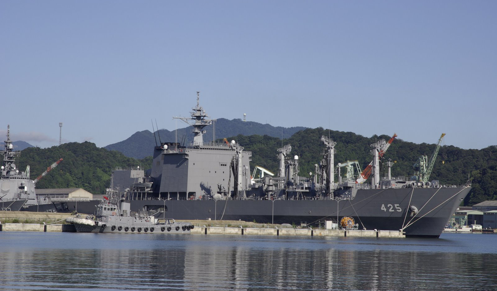 JS Mashū (AOE-425) at Maizuru. Pentax K10D